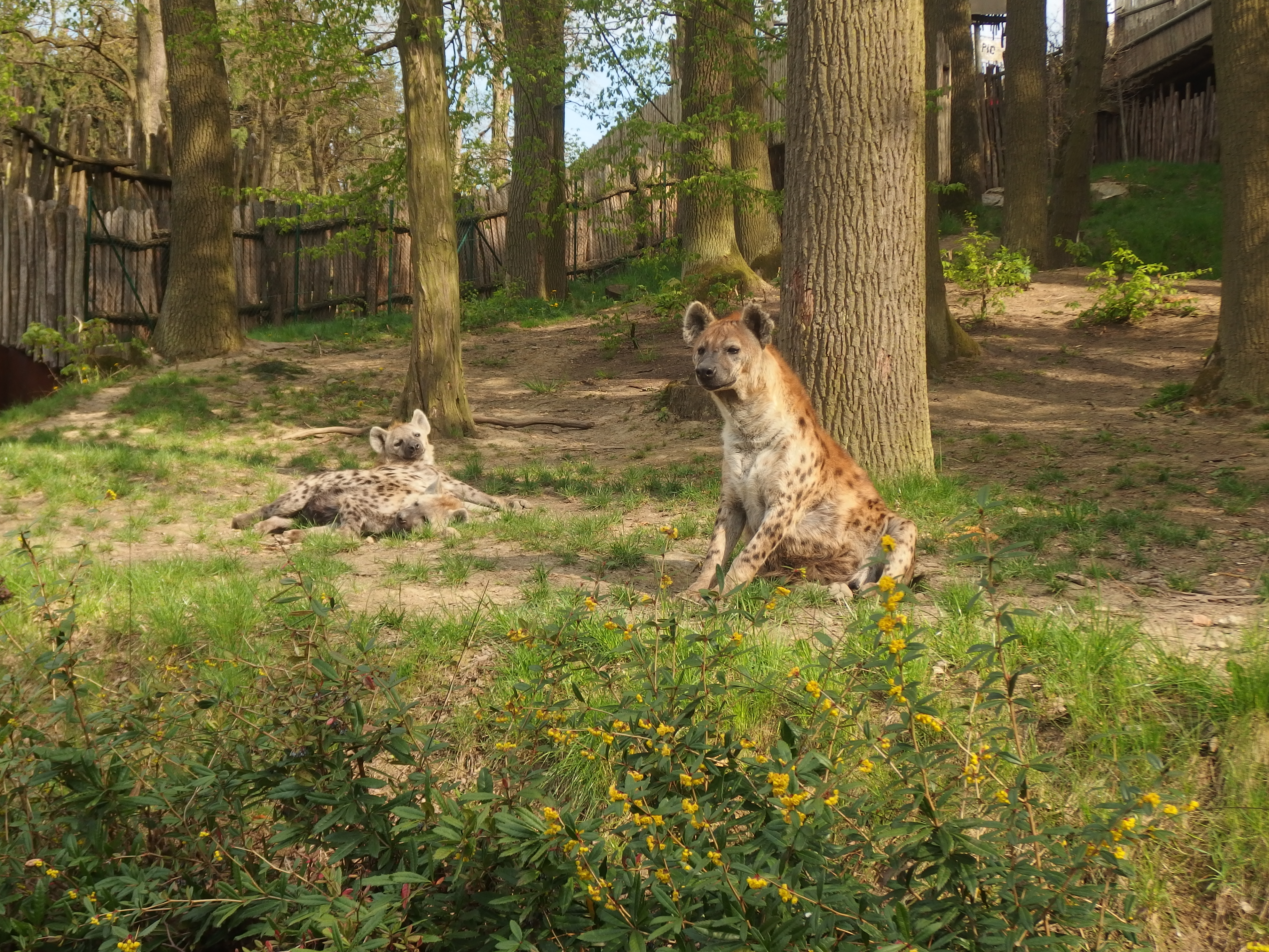 Zoo Zlín, Czech Republic. Spotted Hyena.